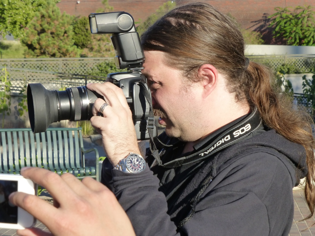 user:Seraphimblade